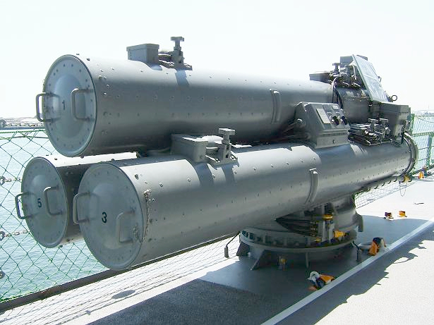 The starboard Mk 32 Torpedo Tubes on the destroyer JS Harusame (DD-102). Location: Garden Pier, Nagoya, Japan.